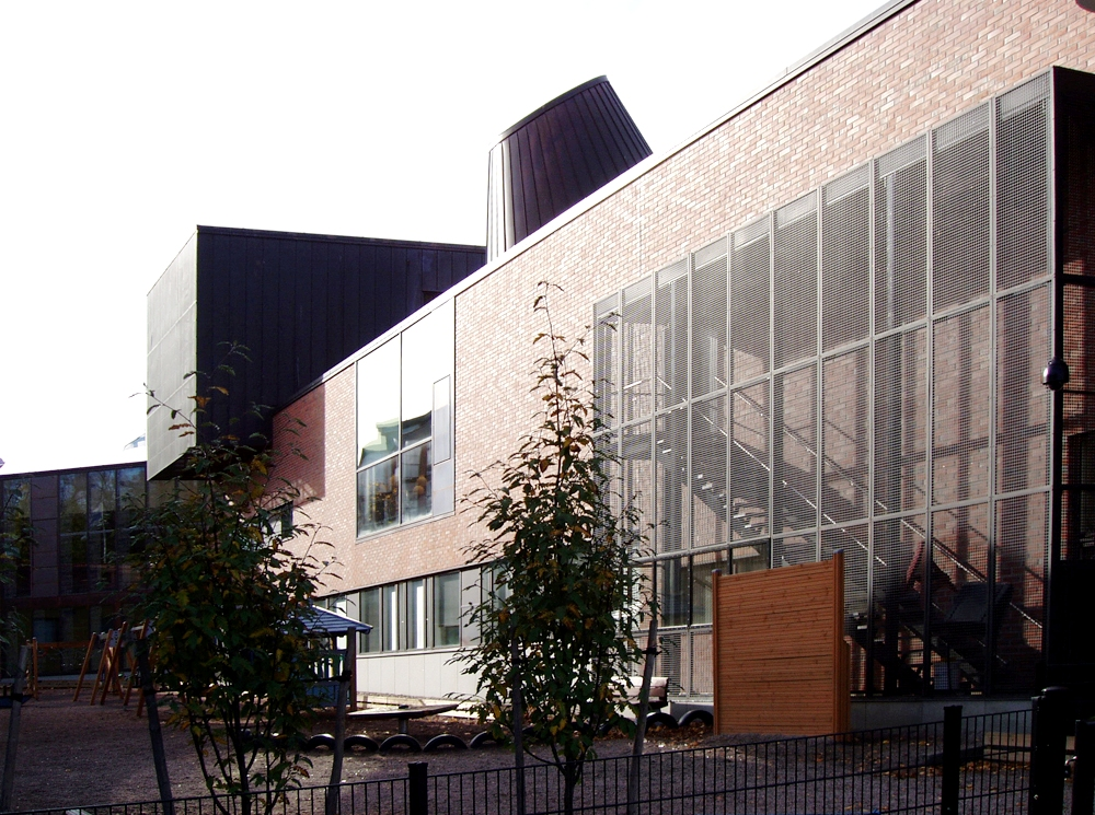 New City Library, Lohja, Finland, by Ilmari Lahdelma from Lahdelma & Mahlamäki Architects. This is not the façade of the library but the backside.